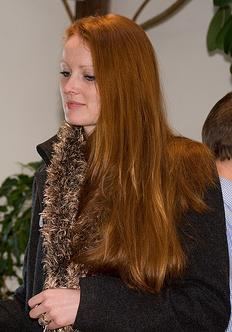 Photograph of Elizabeth Kucinich by Roger H. Goun. Found at Dennis Kucinich's website lists his wife's name as Elizabeth Jane Kuchinich, not Harper (although it was her maiden name apparently).